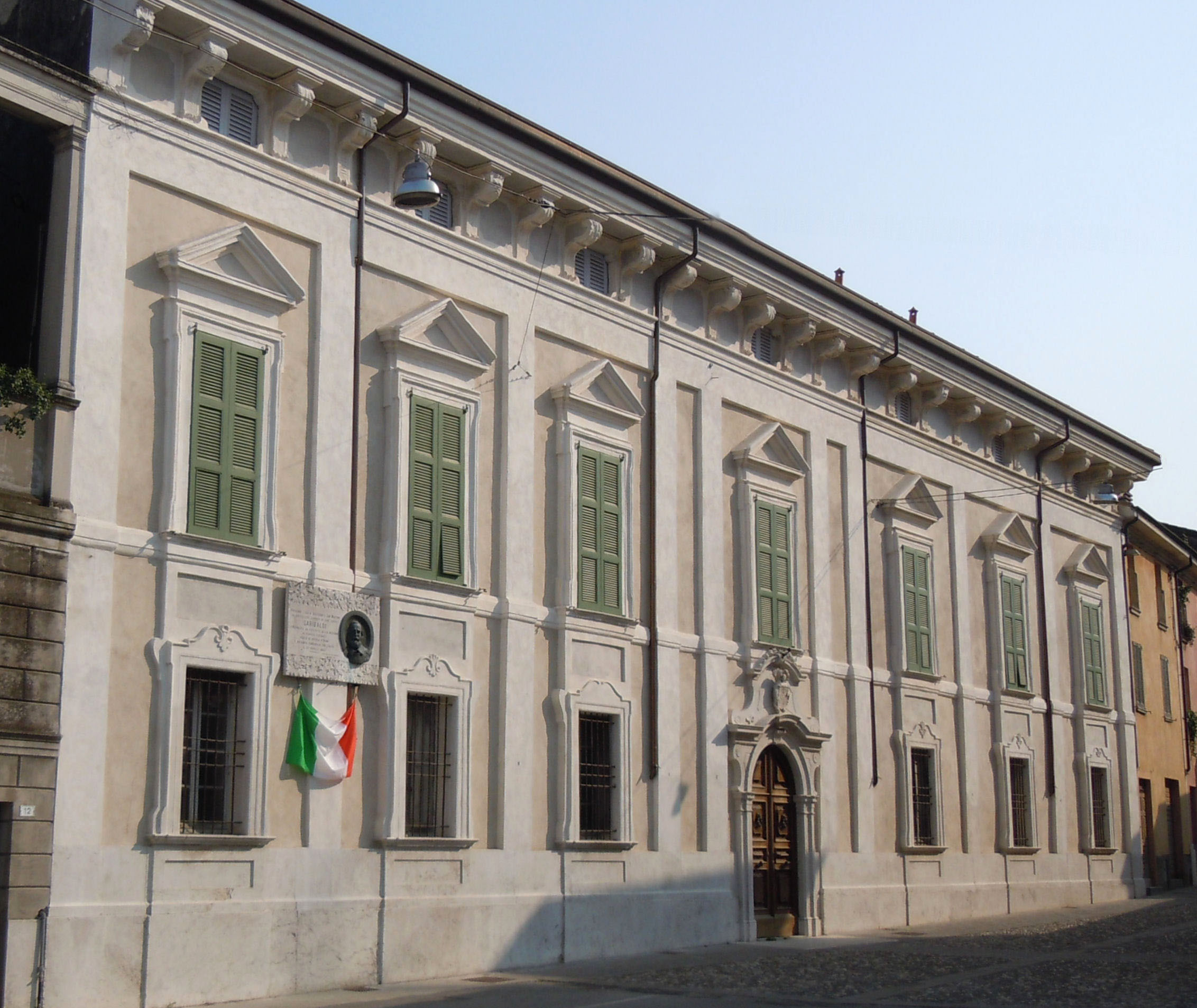 Medole, Ceni Palace, the first ambulance of the Battle of Solferino and San Martino. Coor: 45.325501,10.510396